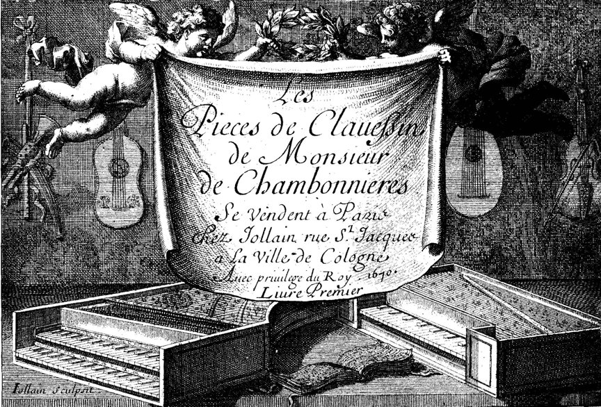 The title page of Jacques Champion de Chambonnières's first volume of harpsichord pieces, published in 1670.